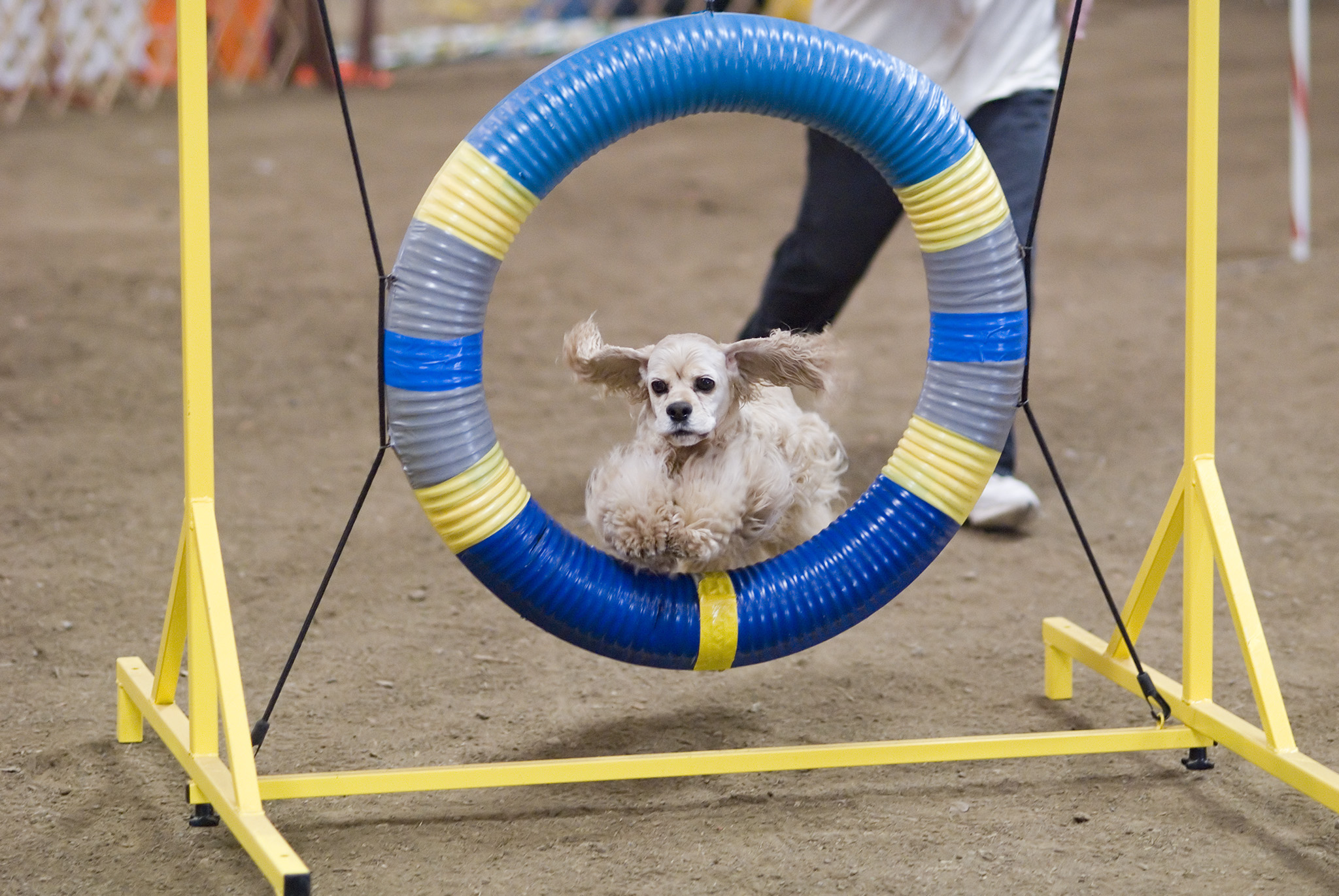 An American Cocker Spaniel during an agility competition.